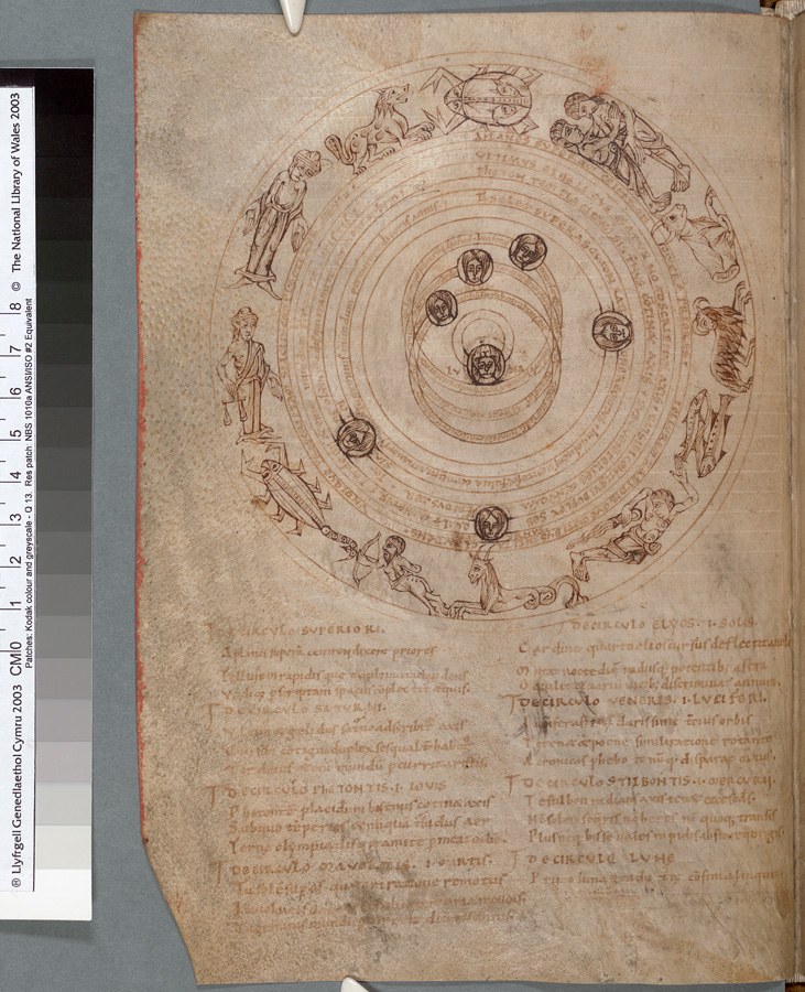 An astronomical chart from the oldest scientific manuscript in the National Library, which contains various Latin texts on astronomy. The volume is written in Caroline minuscule.